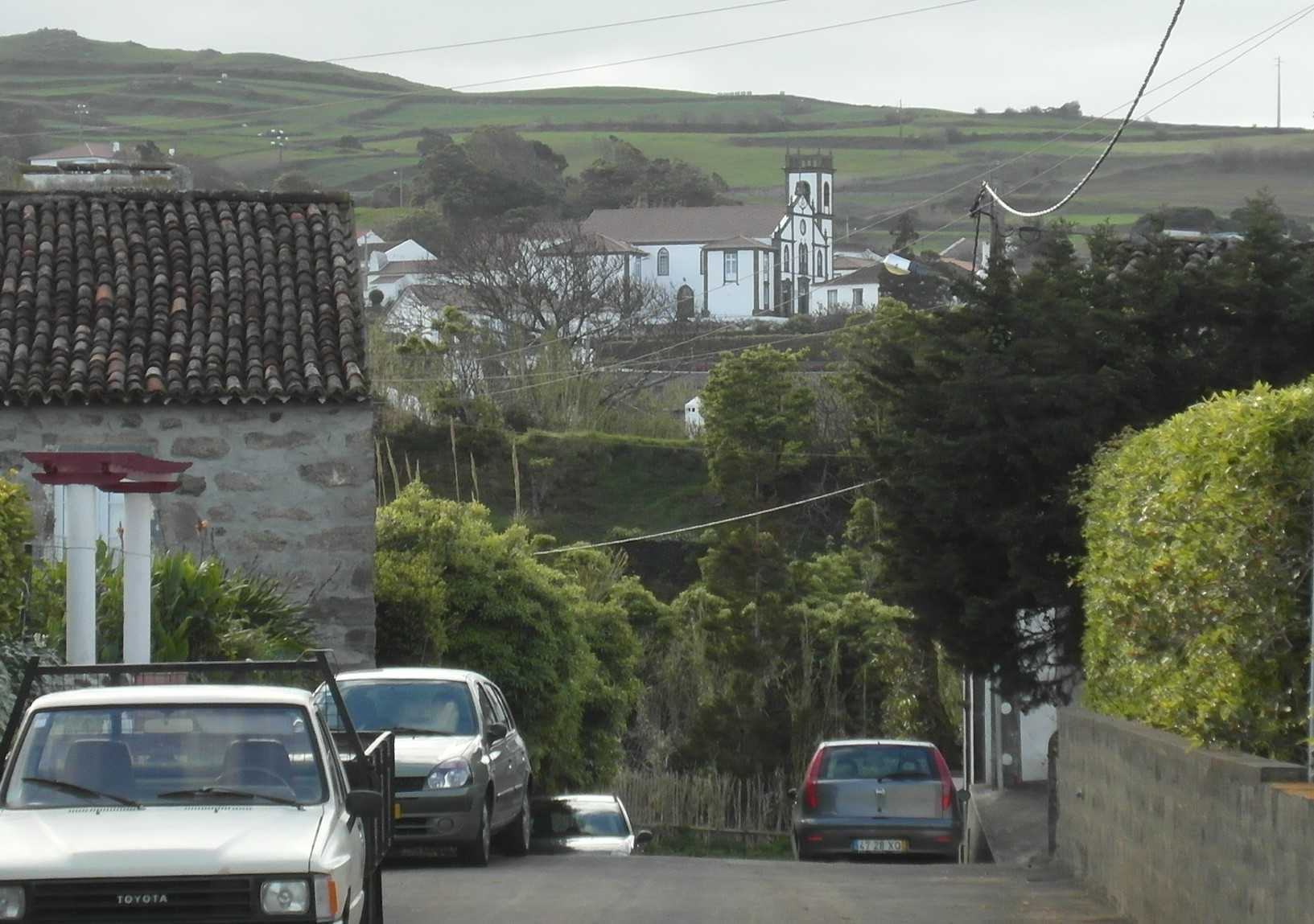 Lomba da Cruz